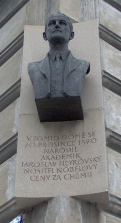 Jaroslav Heyrovsky's memorial plaque in Kaprova street in Prague